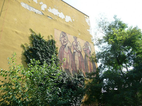 Women, mothers (sgraffito) - Budapest, IV. district, Szent László tér (square of the estates of small houses around.